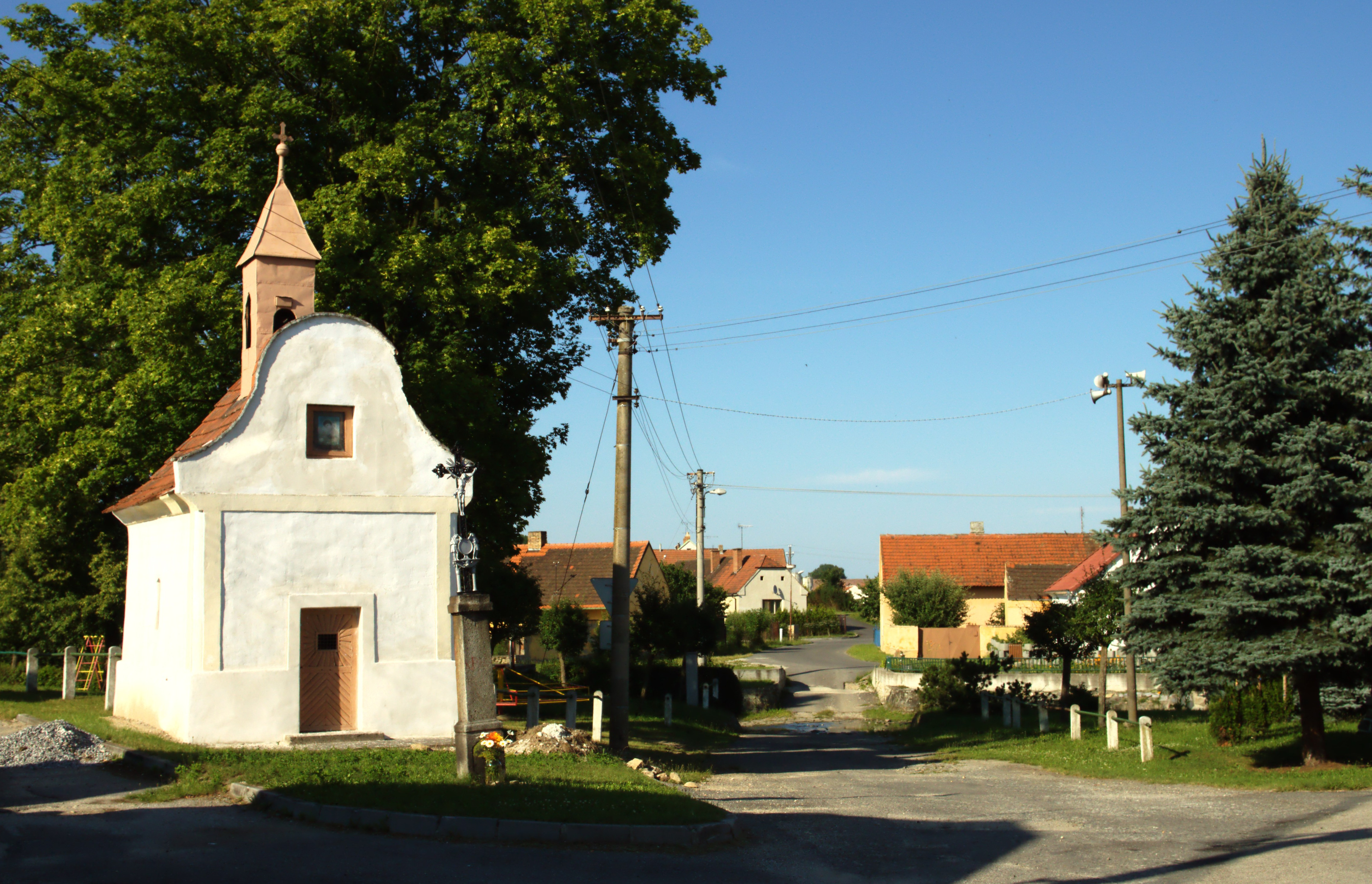 A chapel in Čejetice, South Bohemian Region, CZ